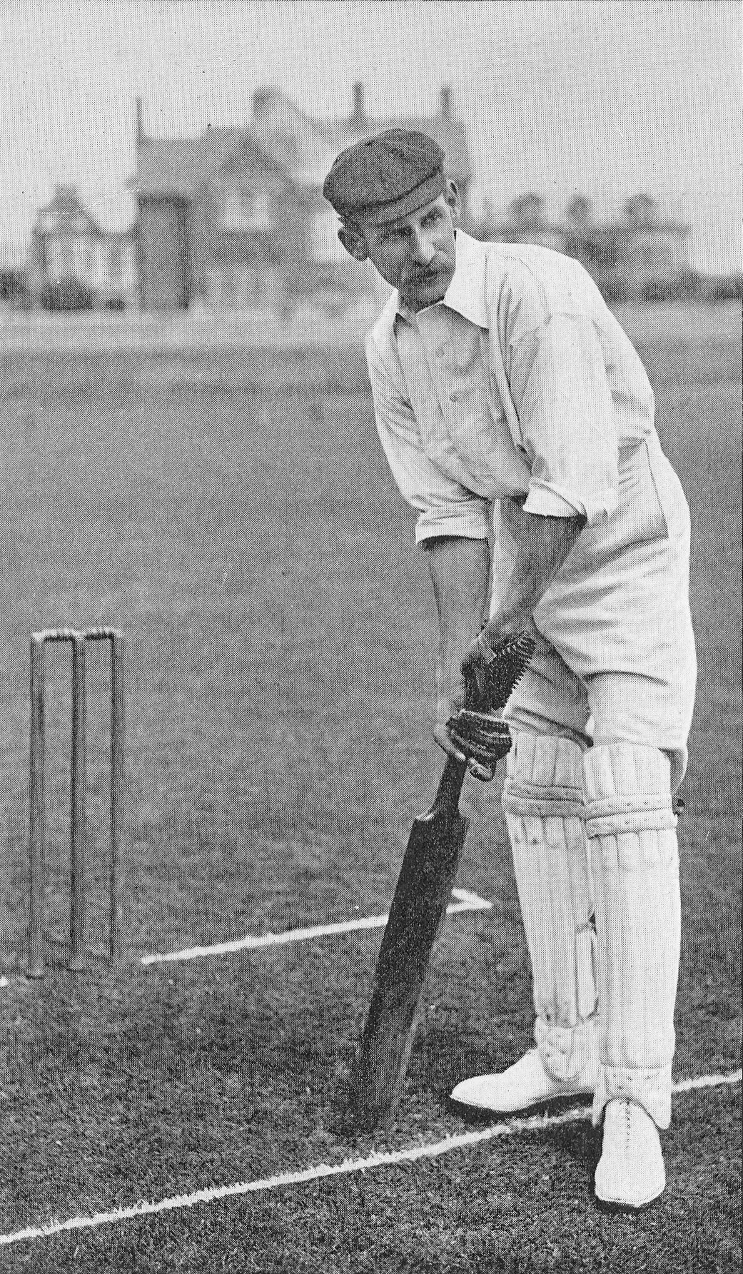 "Chatterton's position at the wicket."